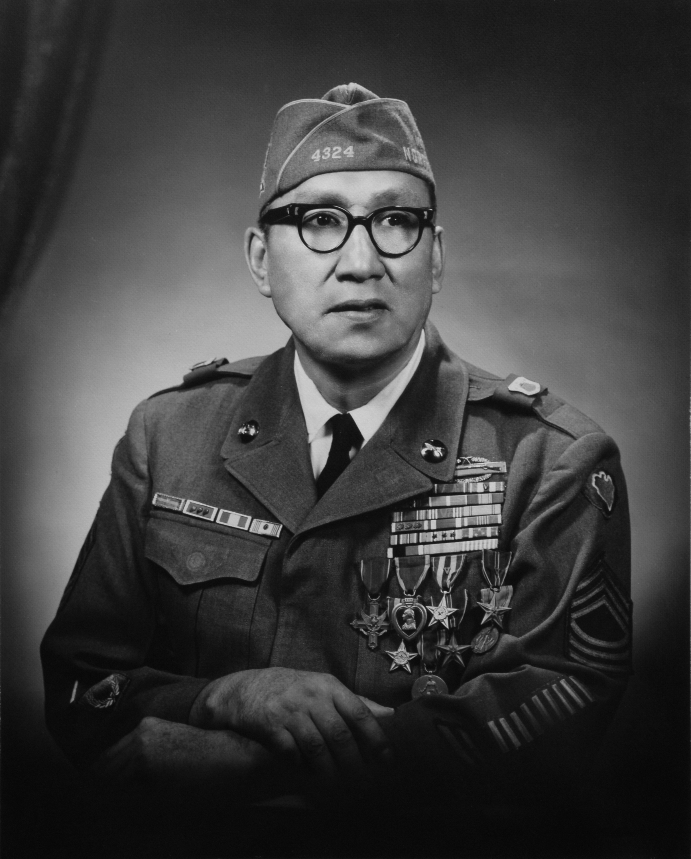 High resolution image of MOH recipient, United States ANG Master Sergeant Woodrow Wilson Keeble.